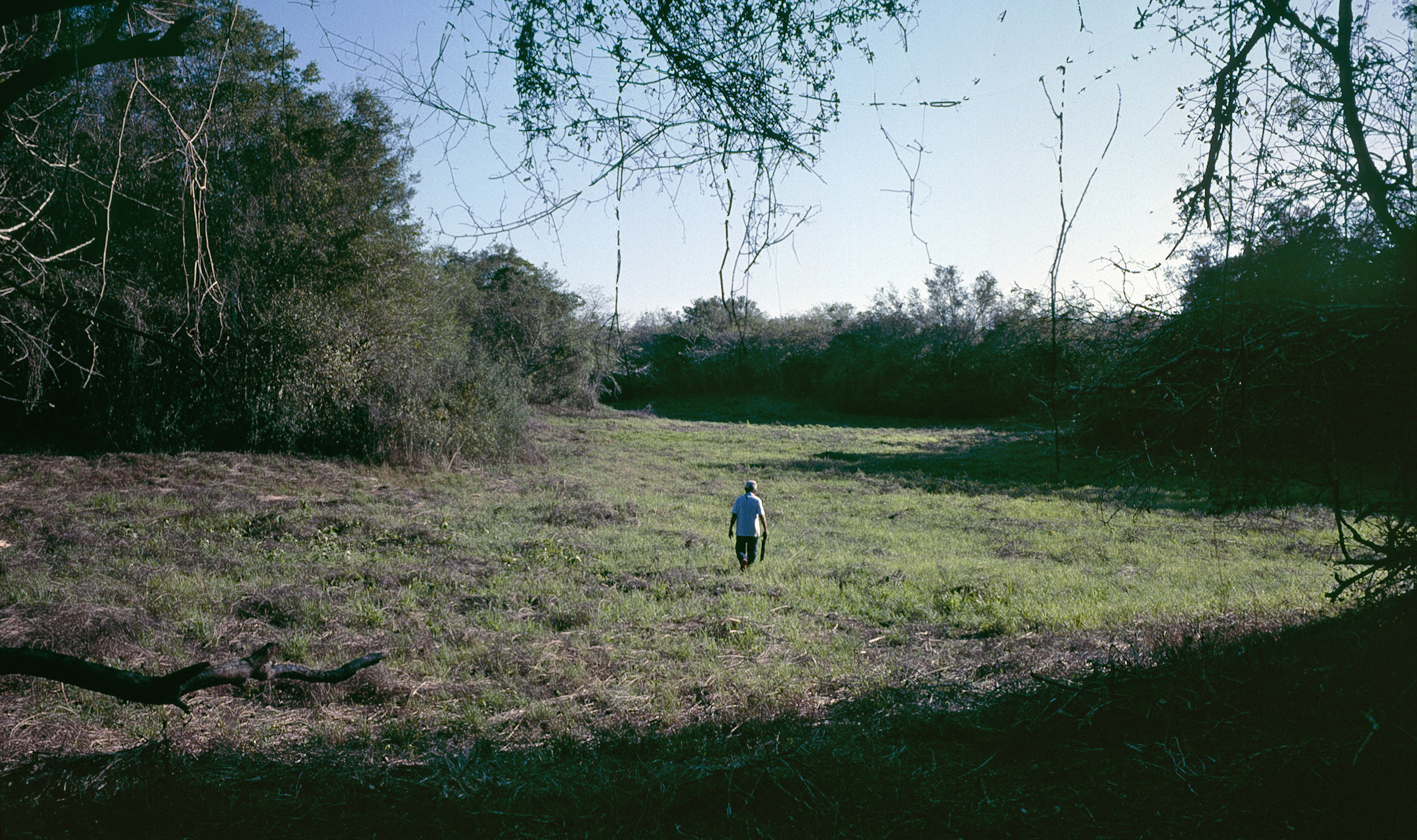 Uxmal, Yucatan, Mexico: aguadea